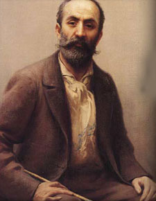 Self-portrait Fausto Zonaro